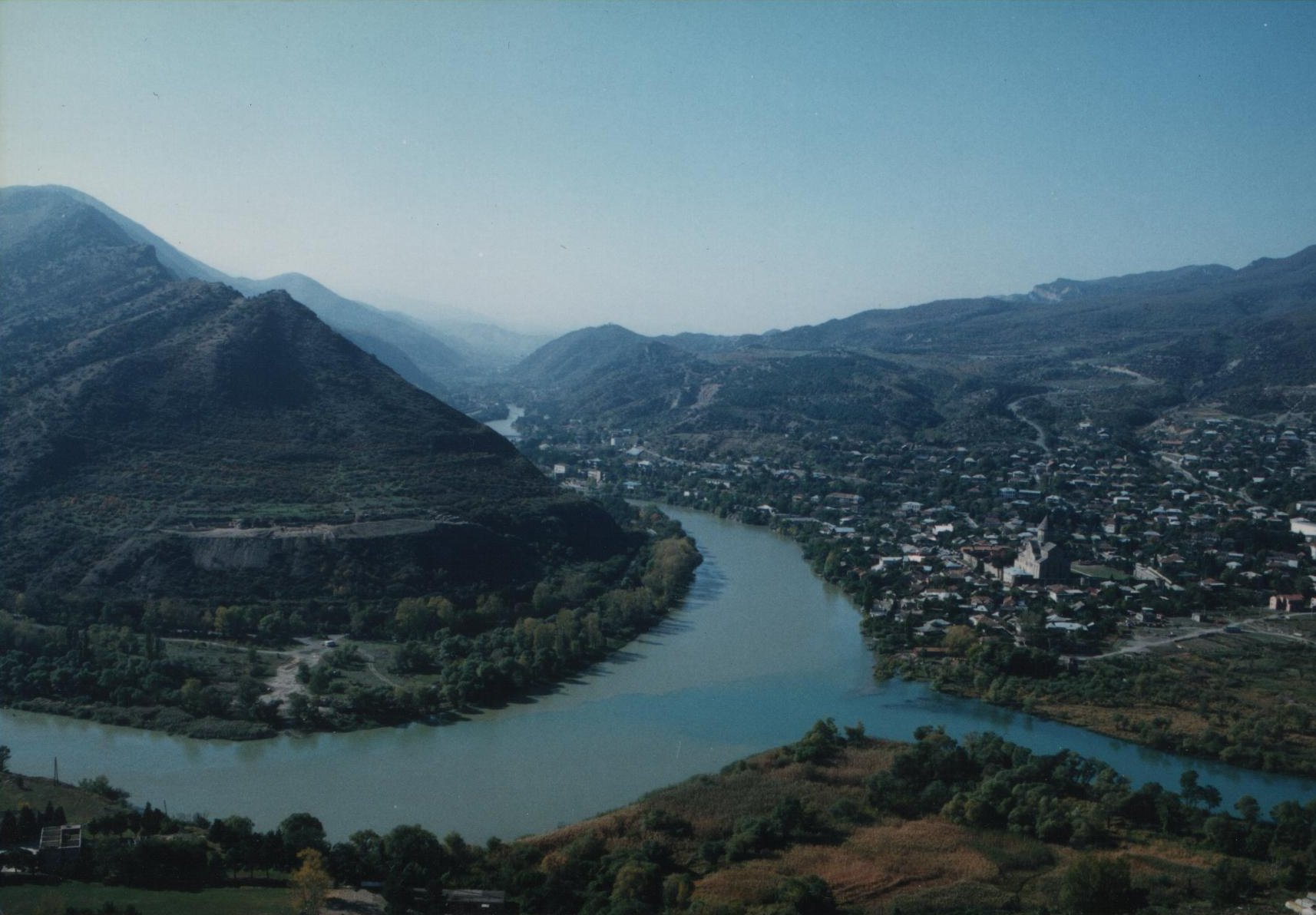 A picture of Mtskheta, the old capital of Georgia. Taken by User:Twid in 1996 or possibly 1997.